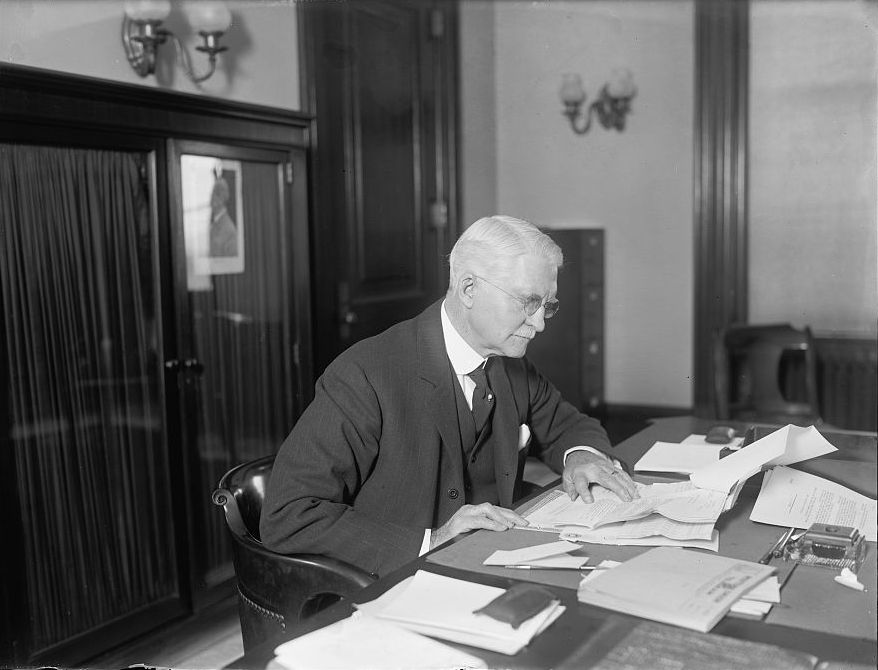 Senator Lawrence D. Tyson of Tennessee, photographs by the National Photo Company in 1925.